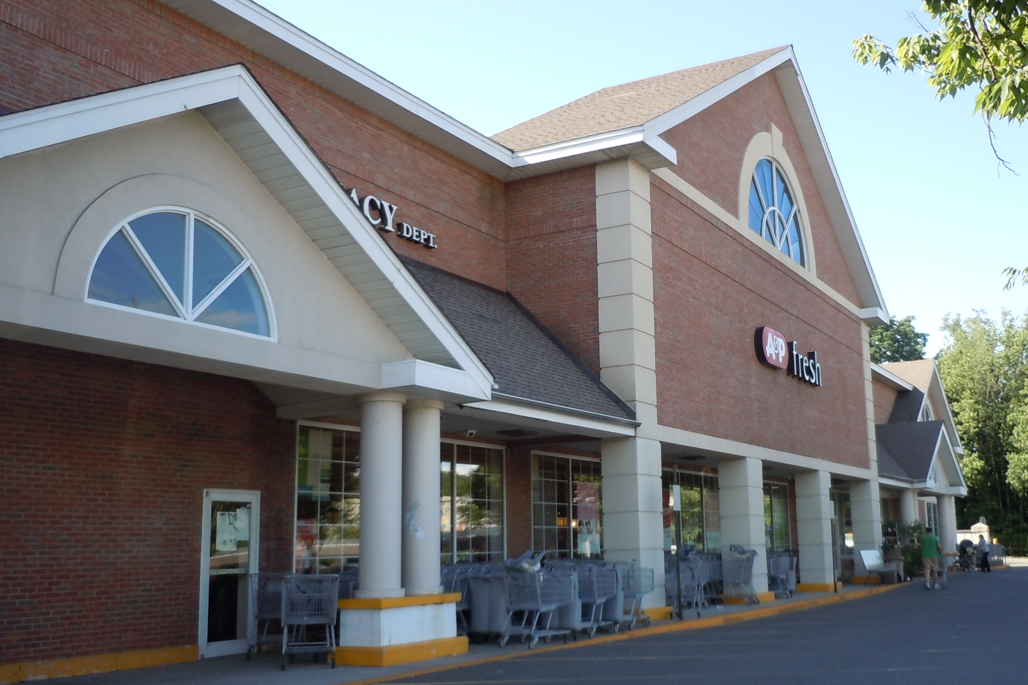 The A&P supermarket, Midland Park, 2012